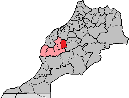 Location of the province El Kelâa des Sraghna within the region Marrakech-Tensift-Al Haouz, Morocco. In total, Morocco has 16 regions, subdivided into 62 provinces and 13 prefectures.